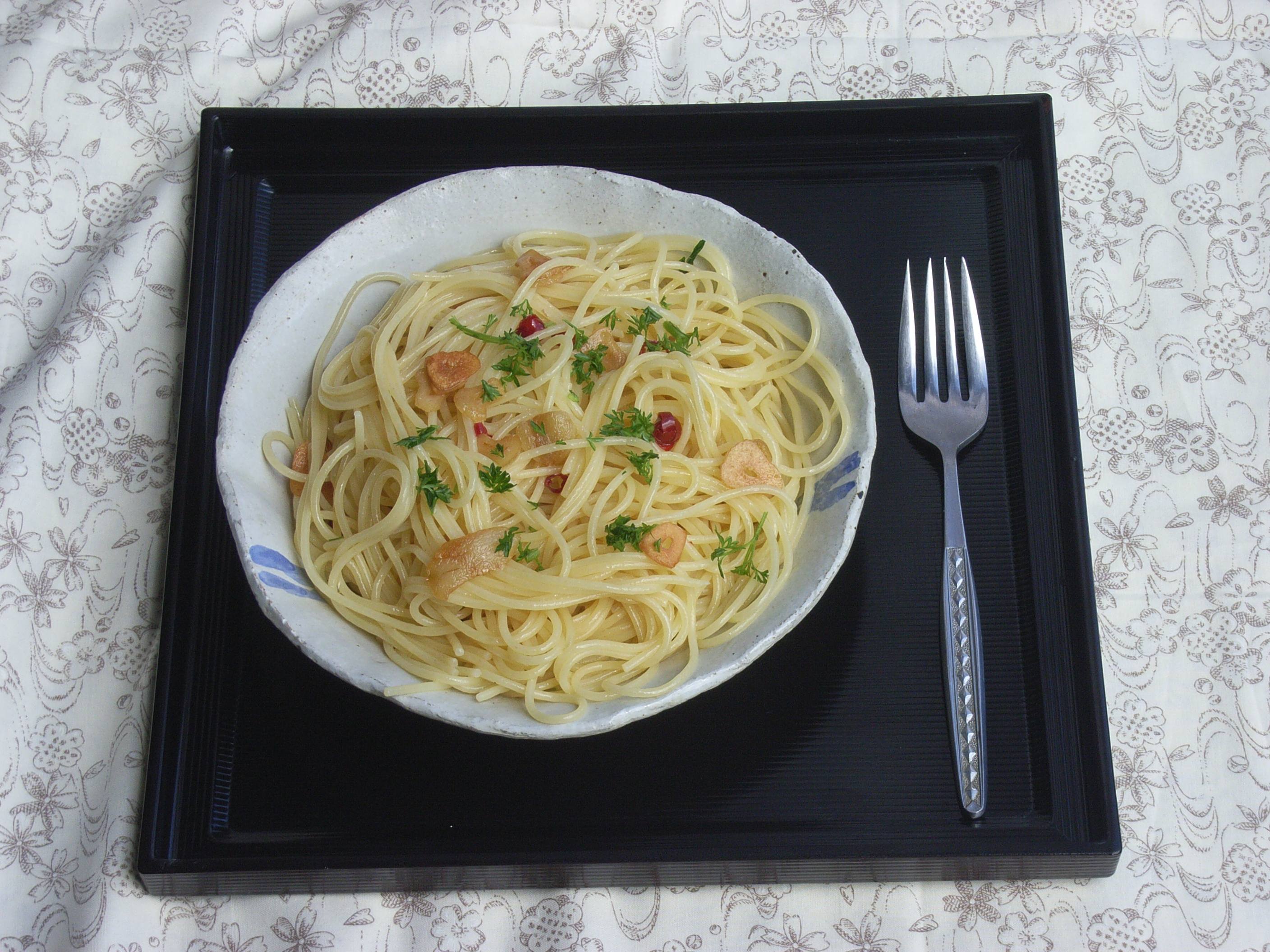 Spaghetti, I cooked. Spaghetti with garlic, oil and chilli